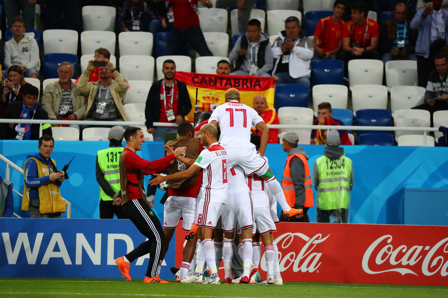 Spain-Morocco match, Group B, 2018 FIFA World Cup